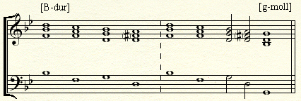 Romanesca bass pattern (isometric)